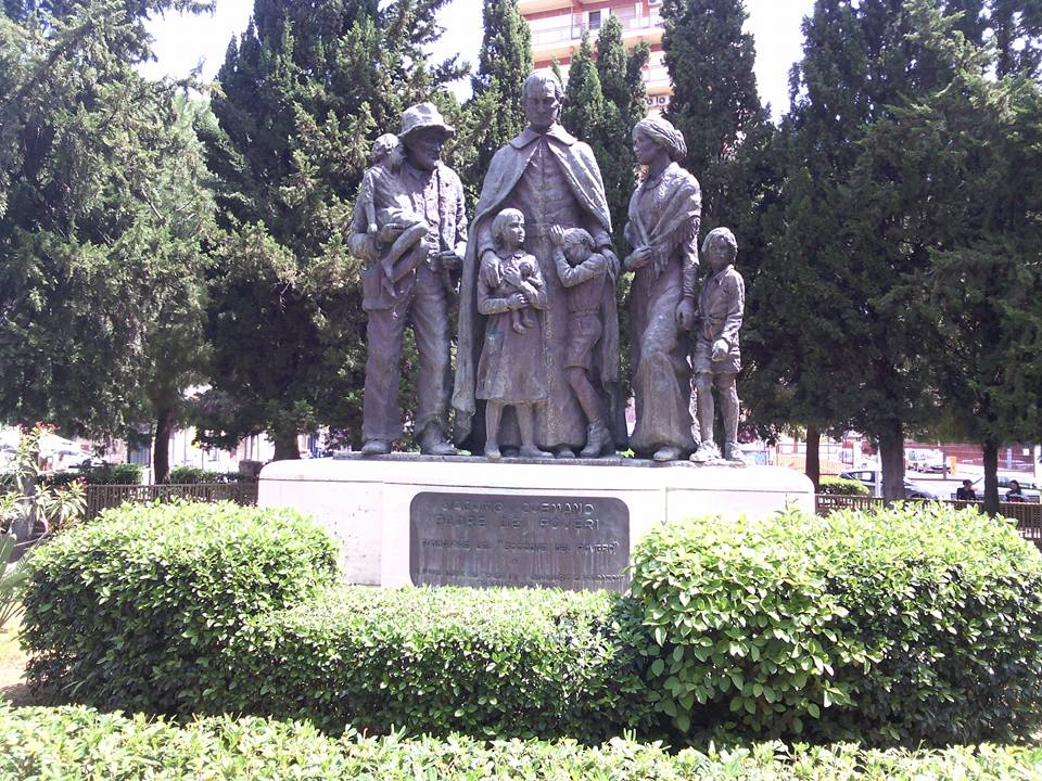 Monument to the Blessed Giacomo Cusmano - Piazza Campolo, Palermo